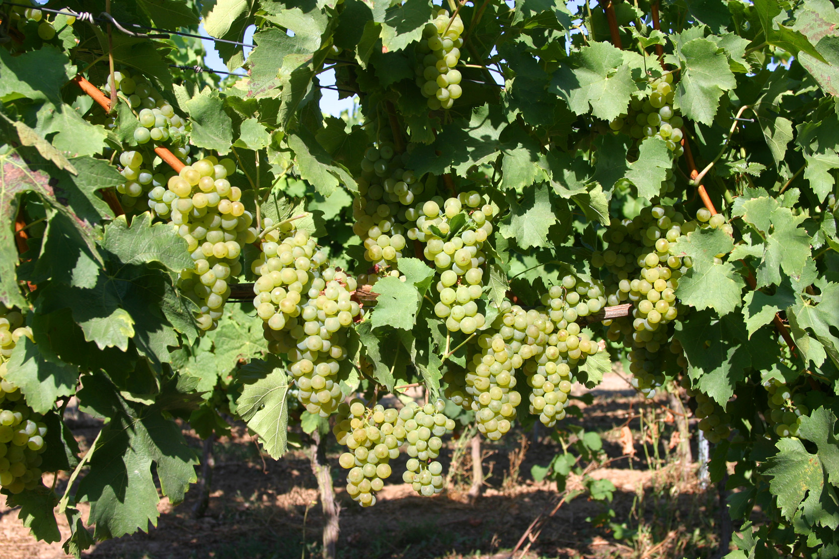 Leafs and grapes of the grape variety Faberrebe.